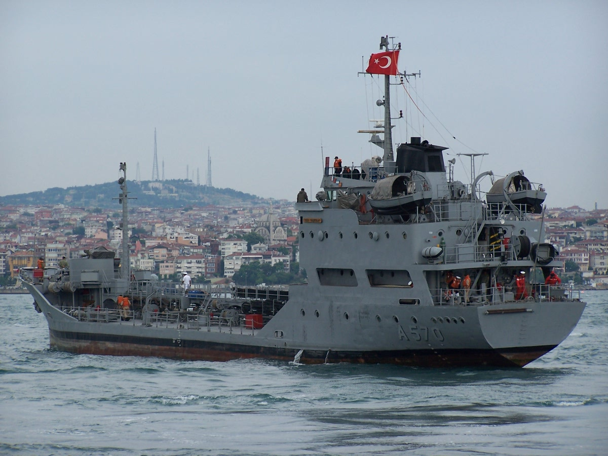 TCG Taşkızak (A-570), İstanbul, June 15, 2006.